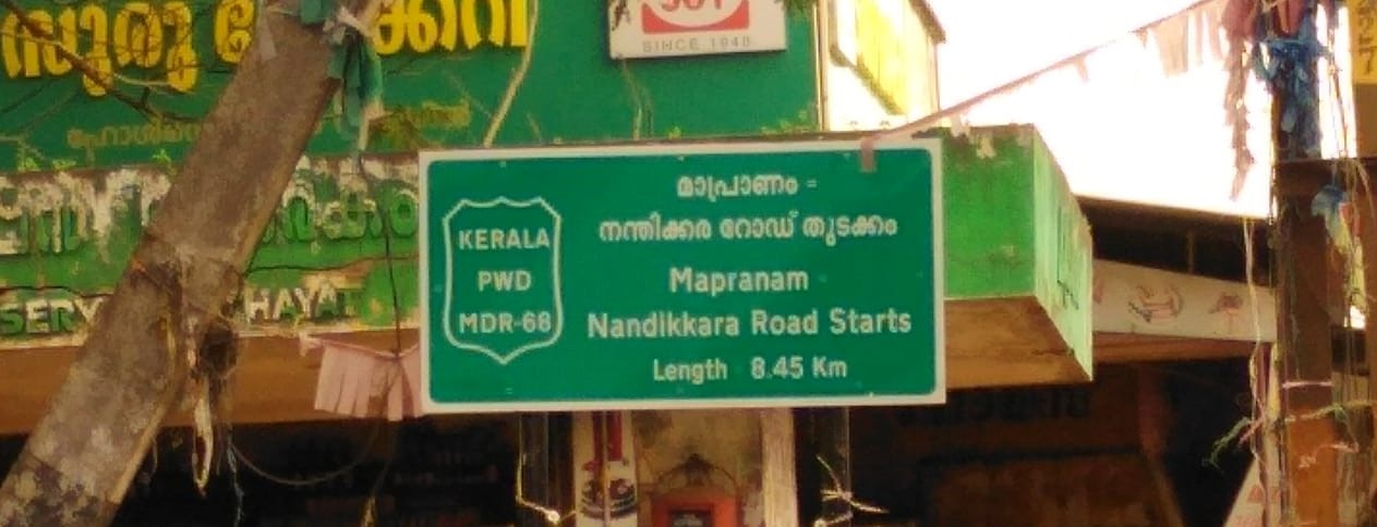 Kerala Major District Road Mapranama Nandikkara